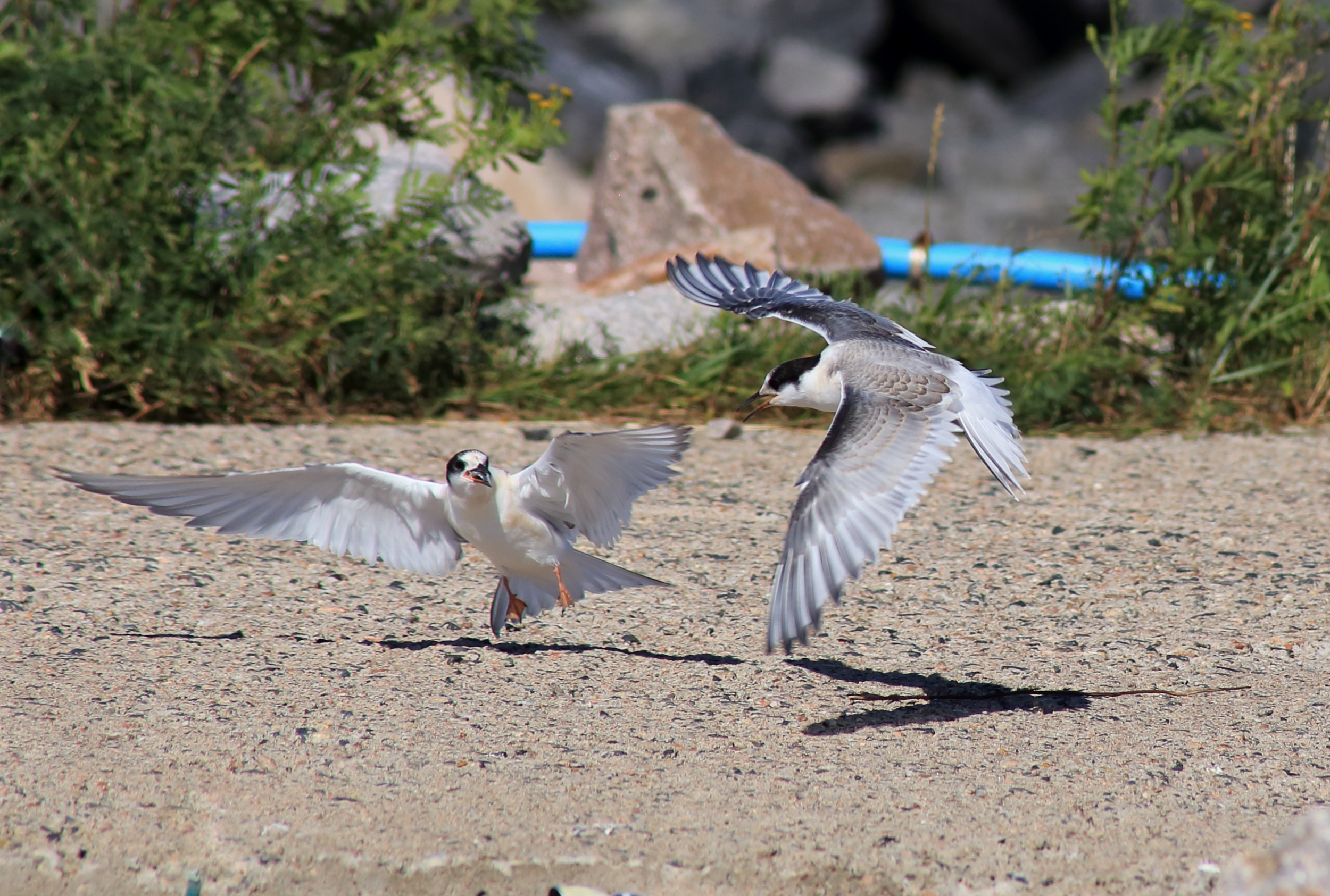 A pair of juvenile Common tern (Sterna hirundo) in Marjaniemi, Hailuoto.